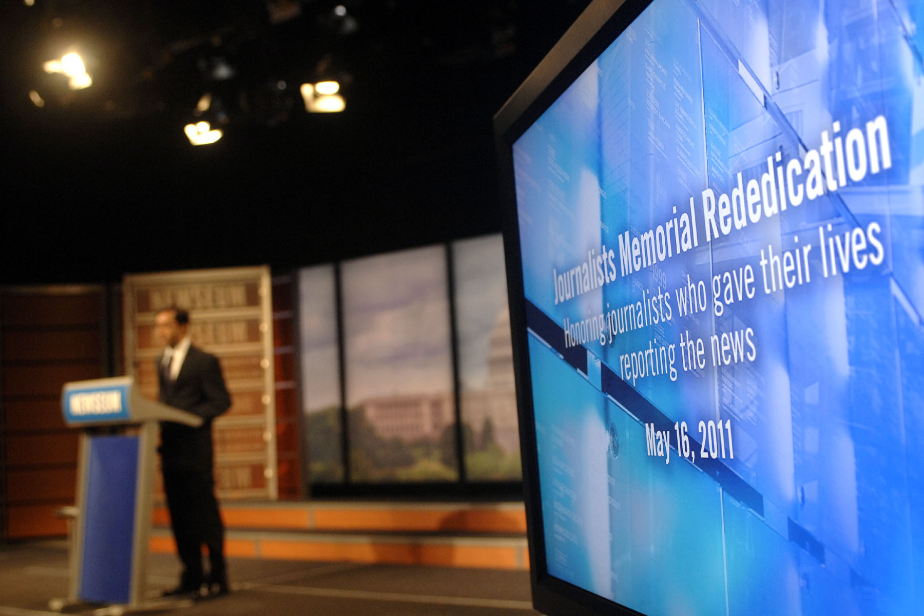 "Krishna Bharat, Google News founder, delivers the keynote address for the 2011 Journalists Memorial Rededication ceremony at the Newseum in Washington, D.C., May 16, 2011. The ceremony honored 77 fallen journalists whose names were added to the memorial, including Army Staff Sgt. James Hunter, an Army journalist killed by a roadside bomb in Afghanistan."